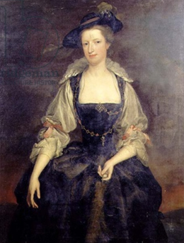 Margaret Rolle, 15th Baroness Clinton, Countess of Orford (1709-1781). Image from bridgemanart